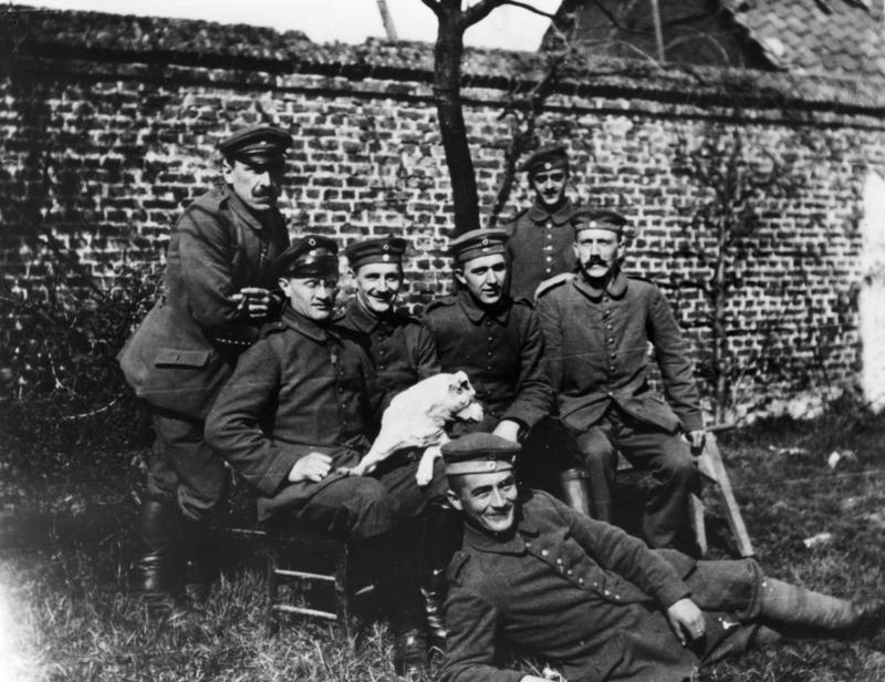 The Führer, Soldier for 25 YearsImmediately after the mobilization, on 3 August 1914, Adolf Hitler’s request to King Ludwig III of Bavaria for entering the Bavarian Army was approved. On 16 August Adolf Hitler was accepted as a war volunteer and assigned to the Bavarian Reserve Infantry Regiment No. 16 (commander: List), to which Adolf Hitler belonged up to the end of war. The Führer with his war comrades of the Bavarian Reserve Infantry Regiment 16. From left to right: standing: Sperl (Munich), lithographer (?), Max Mund (Munich), gilder, sitting: Georg Wimmer (Munich), tram worker, Josef Inkofer (Munich), Lausamer (killed in action), the Führer, lying: Balthasar Brandmayer (Bad Aibling), bricklayer. 11 August 1939 [publication date] de-li-schm 115 Presse-Hoffmann